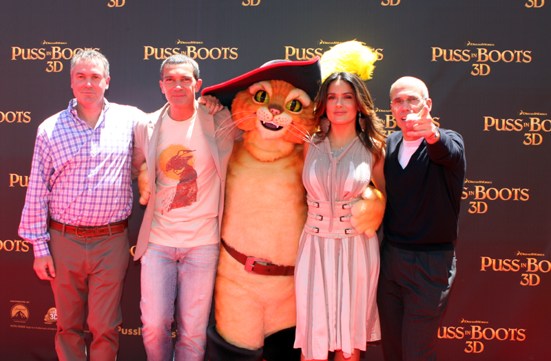 Chris Miller, Antonio Banderas, Salma Hayek and Jeffrey Katzenberg at Puss in Boots premiere at Moore Park, Fox Studios in Sydney, Australia.